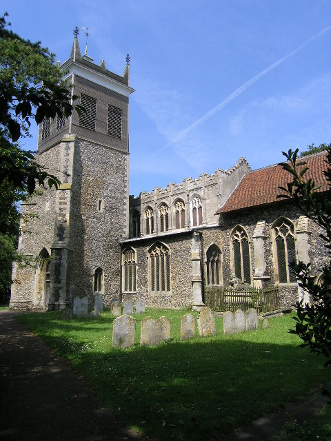 Church of St Mary and St Lambert in Stonham Aspal, Suffolk, England. A Grade I listed medieval church.